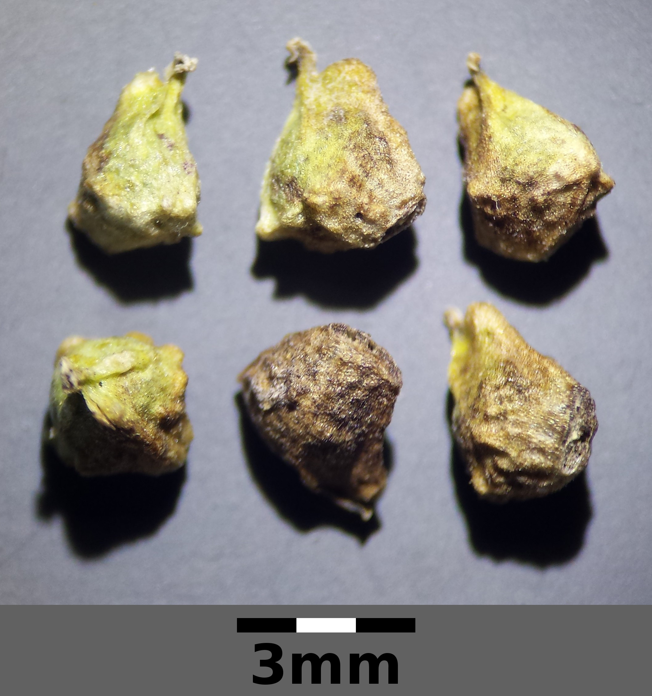 Nutlets Taxon: Adonis flammea (sensu Fischer et al. EfÖLS 2008 ISBN 978-3-85474-187-9) Location: Steinbacher Heide, Leiser Berge, district Korneuburg, Lower Austria - ca. 450 m a.s.l. (leg. 2014-07-13) Habitat: rocky grainfield (limestone)